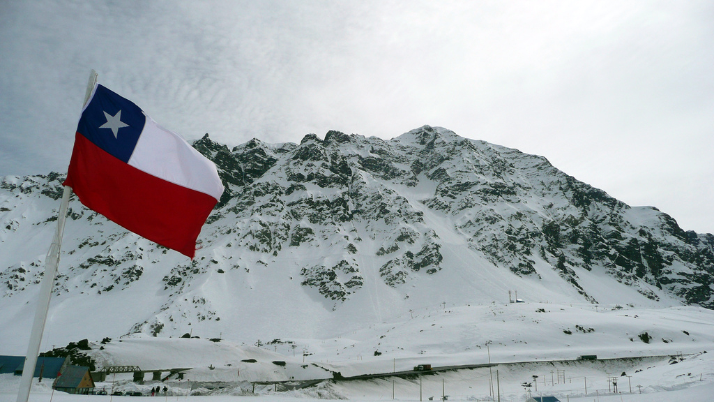 Portillo, Chilean army's high mountain school